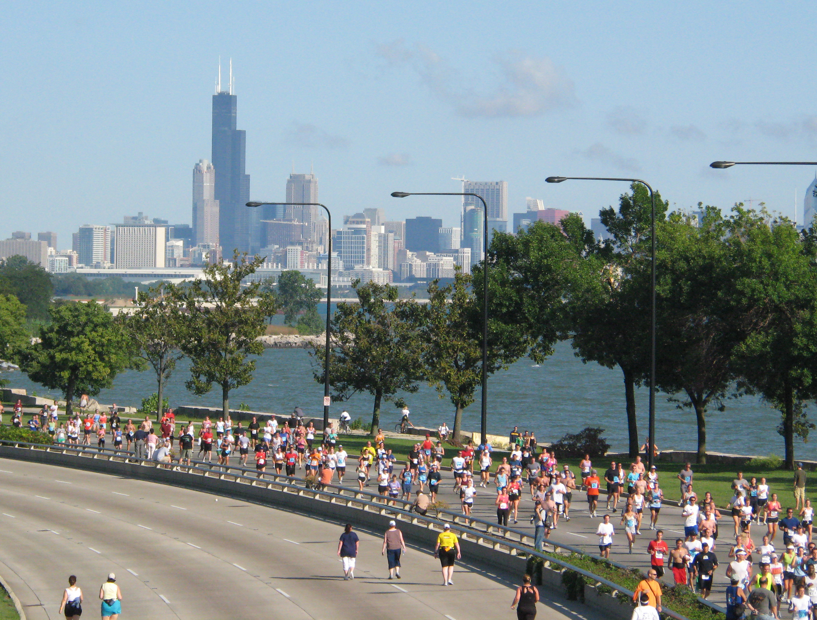 Chicago Half Marathon from 51st street overpass Category:Images of Chicago, Illinois